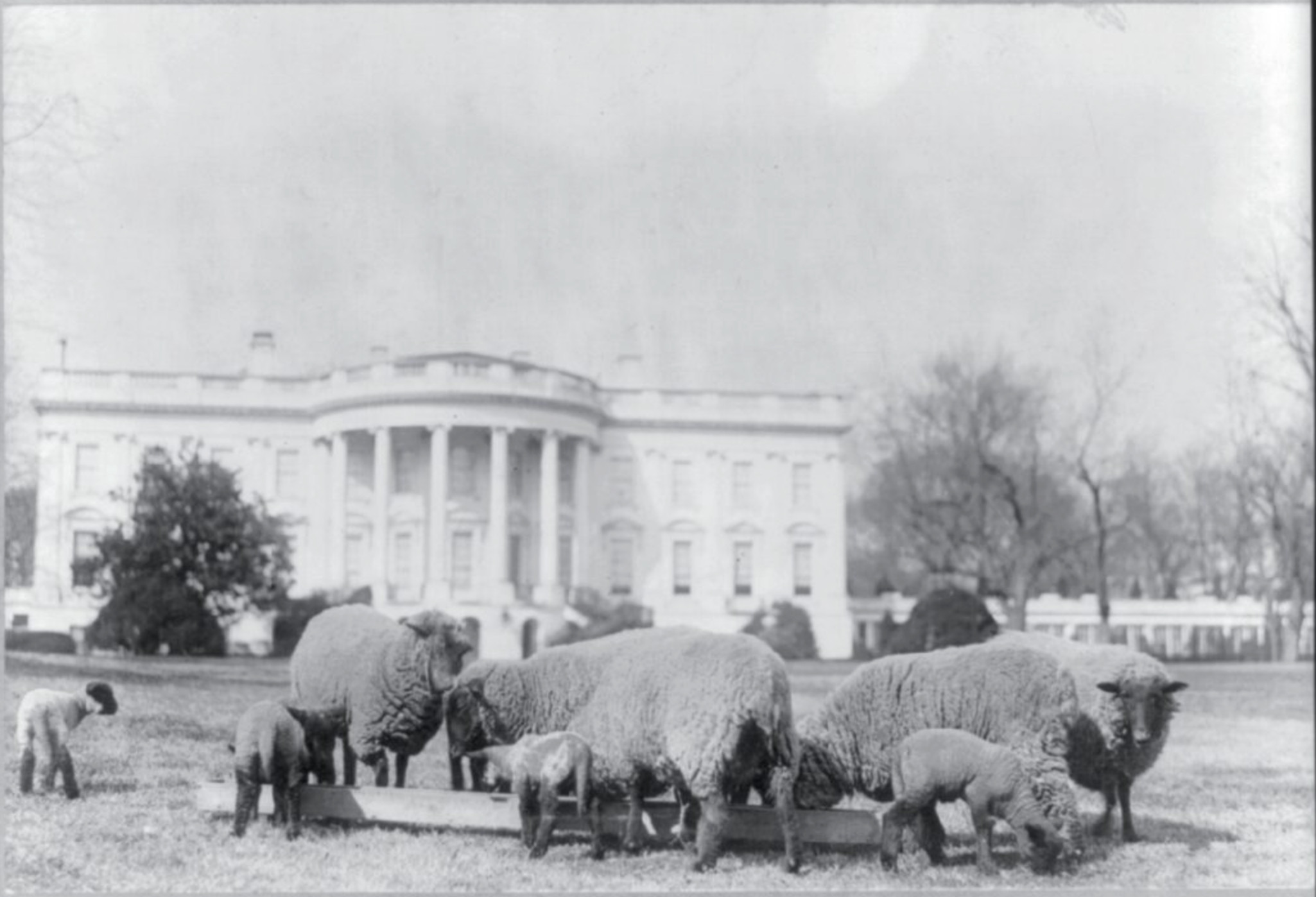 Sheep graze on the White House lawn during Woodrow Wilson's tenure. They were kept as part of the WWI war effort, "Conservation was the by word around the White House; eight sheep were soon gracing the lawns . . . many thousands of dollars were raised for the Red Cross through the auctioning of wool. Two pounds of wool were sold for each state when the sheep were fleeced of almost a hundred pounds of raw wool." - White House Maid and Seamstress Lillian Rogers Parks (My Thirty Years Backstairs at the White House, Fleet, 1961)